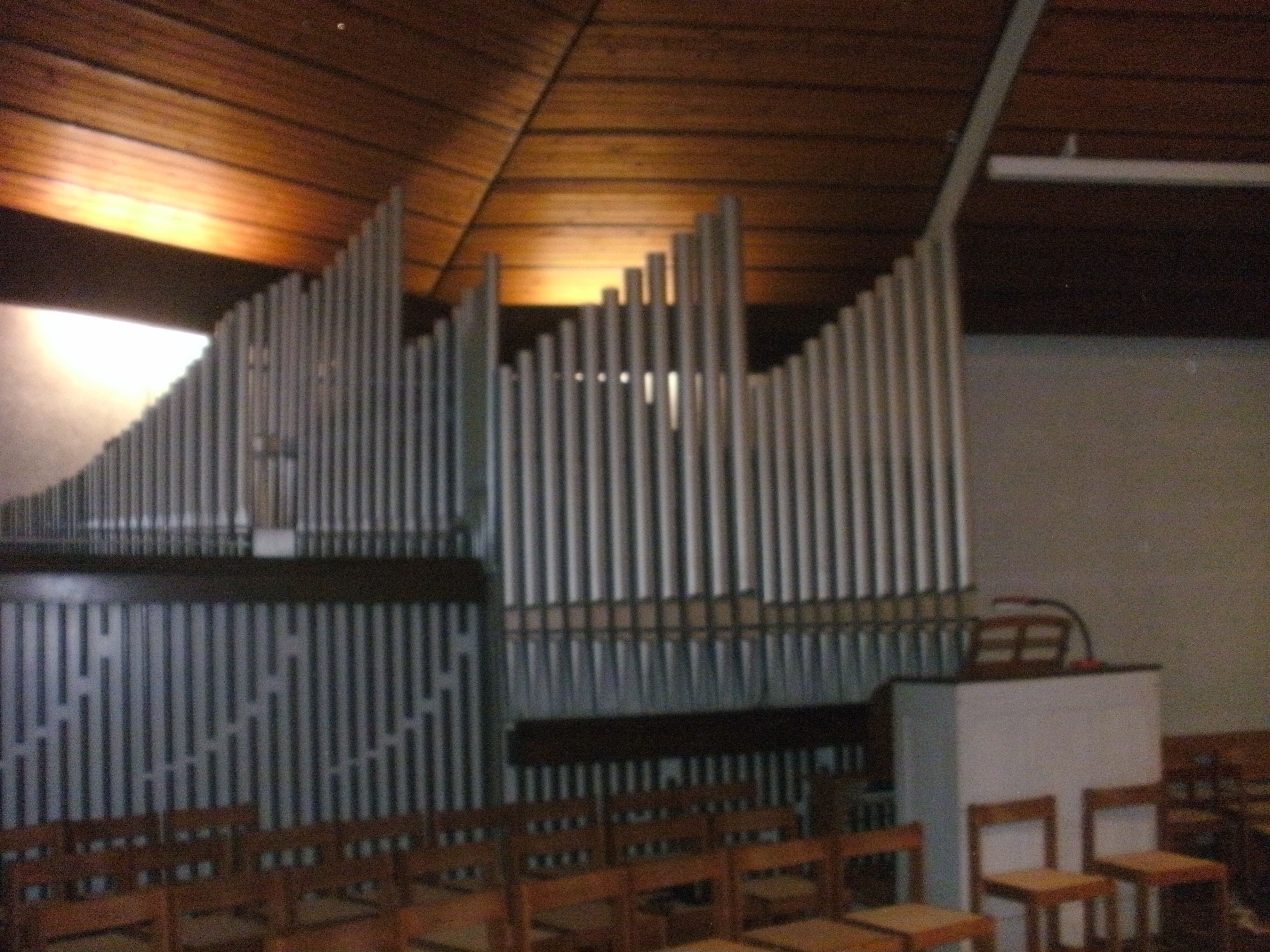 st. Mary of Rosary Portorož organ